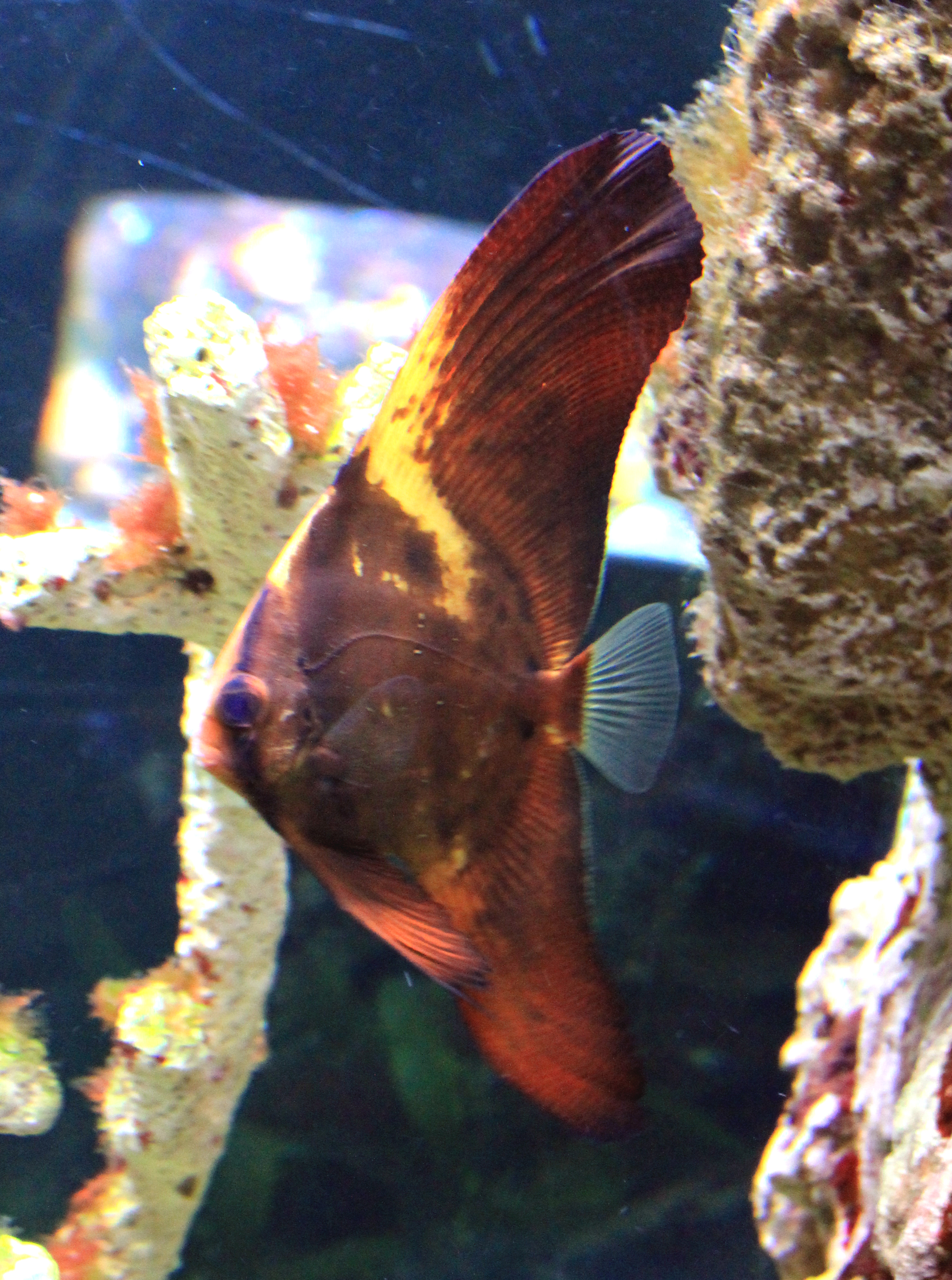 Fish platax teira, Platax teira in Prague sea aquarium, Czech Republic